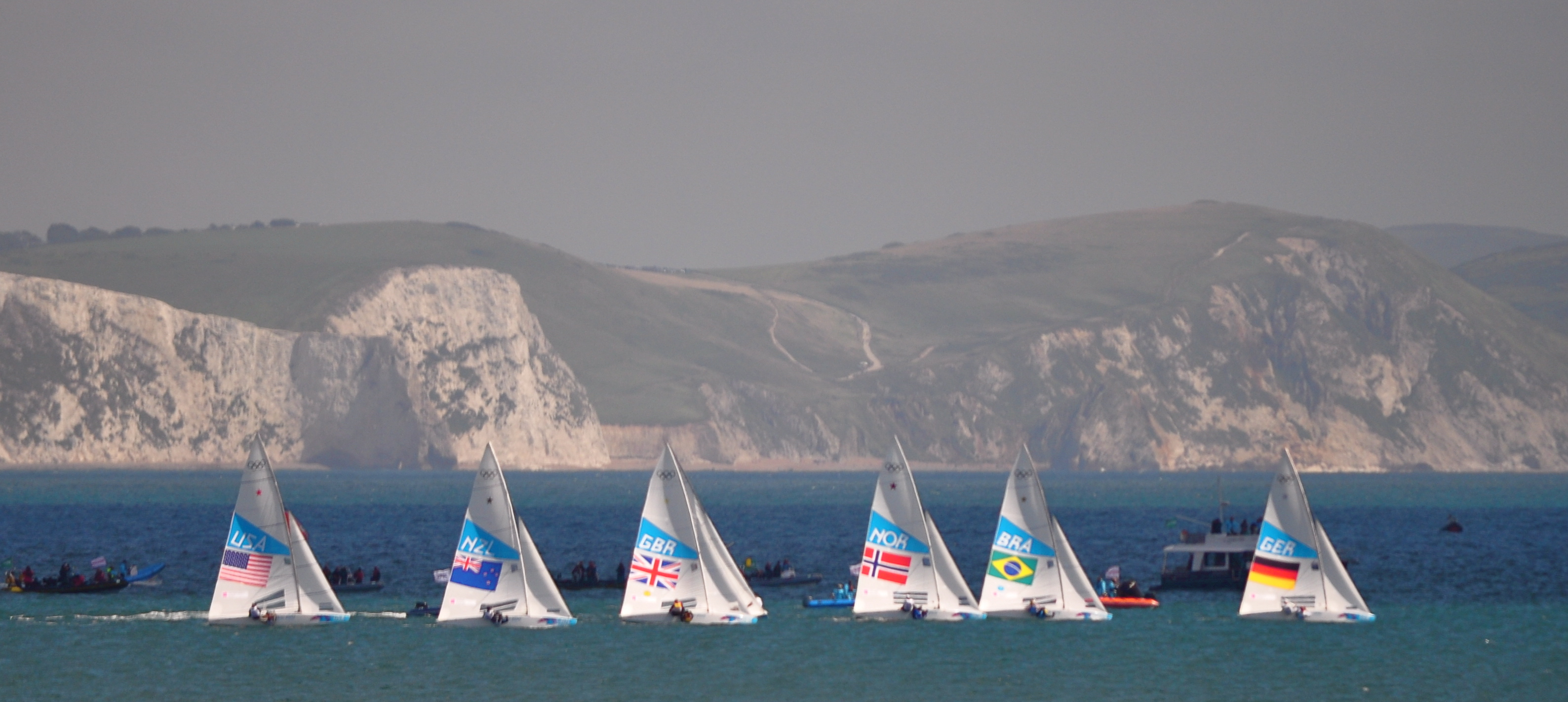 The Star-class fleet of the 2012 Olympic Games competing in Weymouth. Great views and atmosphere. See map for where you can get this view for free.